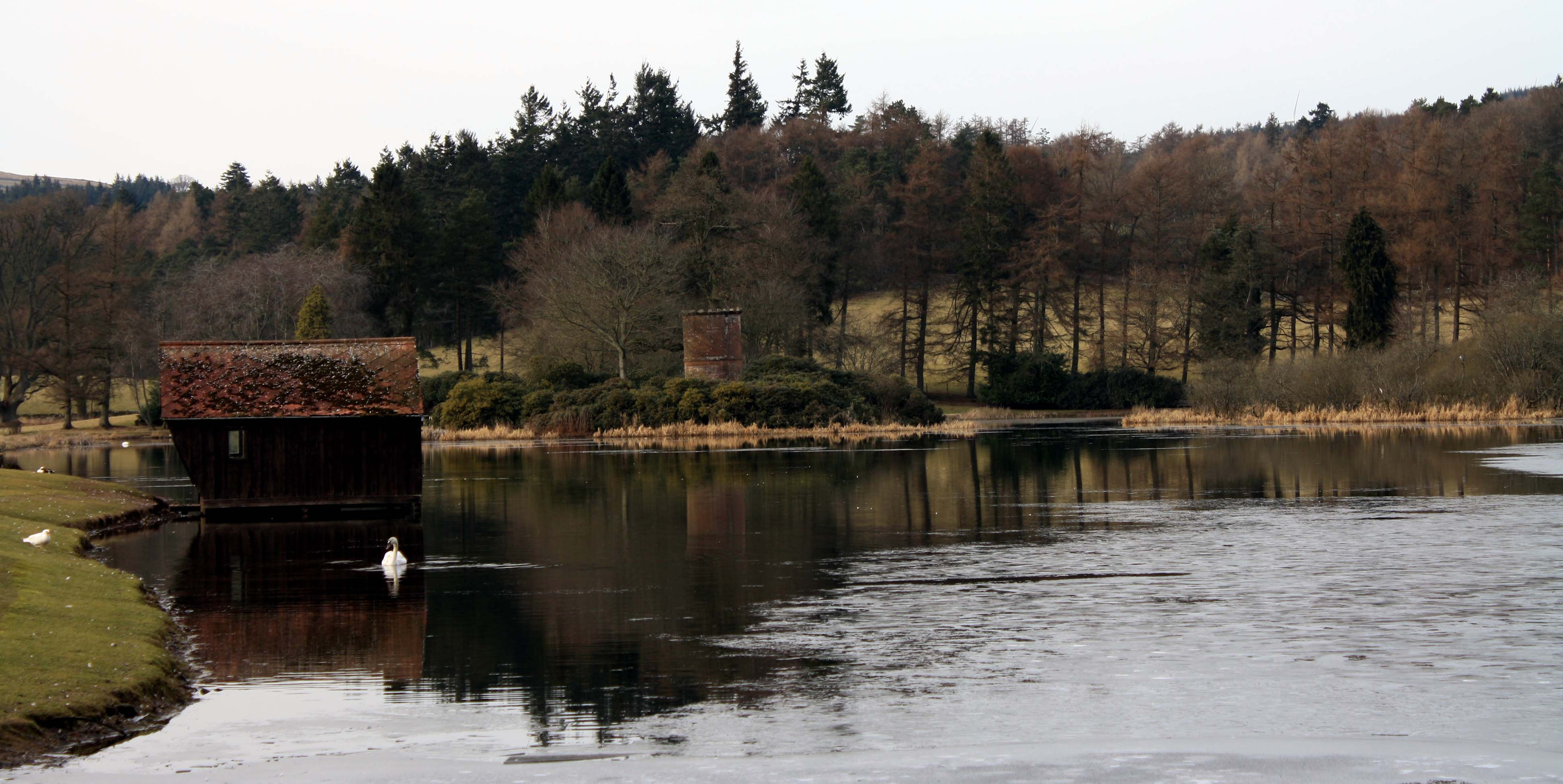 Dalswinton Loch Dalswinton Loch and boathouse.